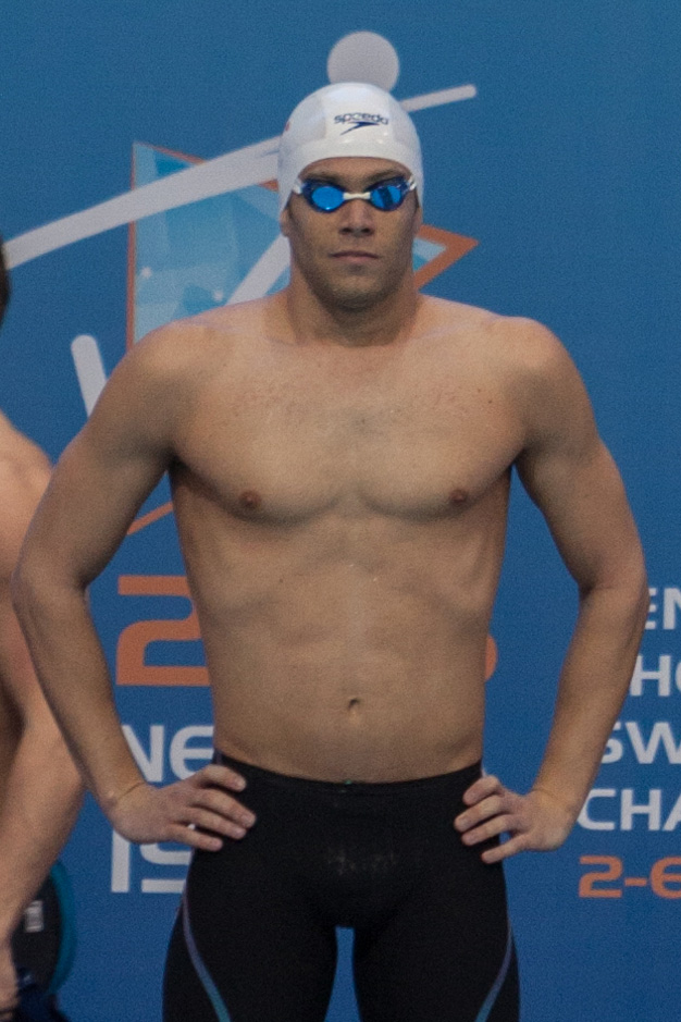 Swimmer Gal Nevo at the 2015 European Short Course Championships in Netanya